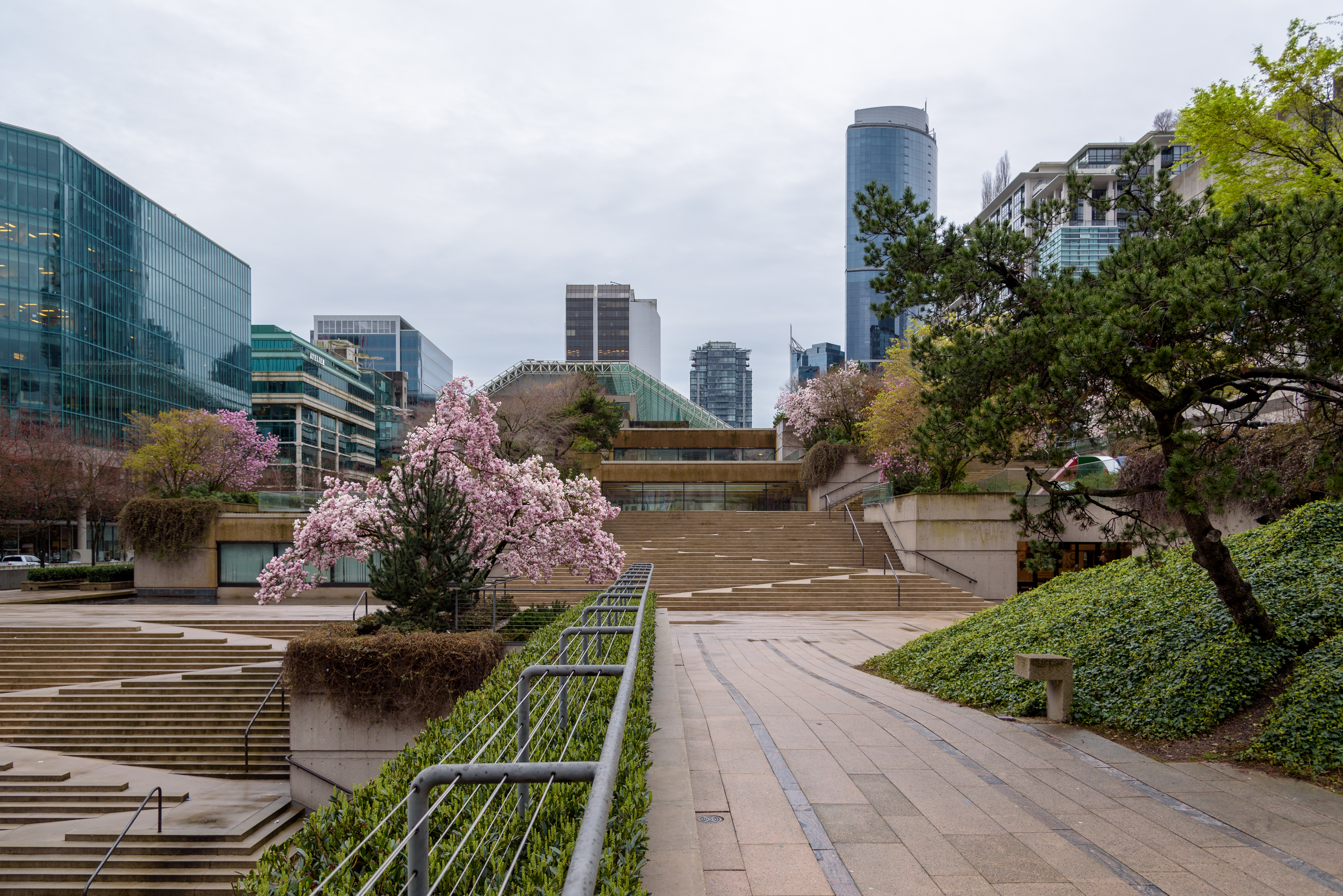 Robson Square, Vancouver, Canada